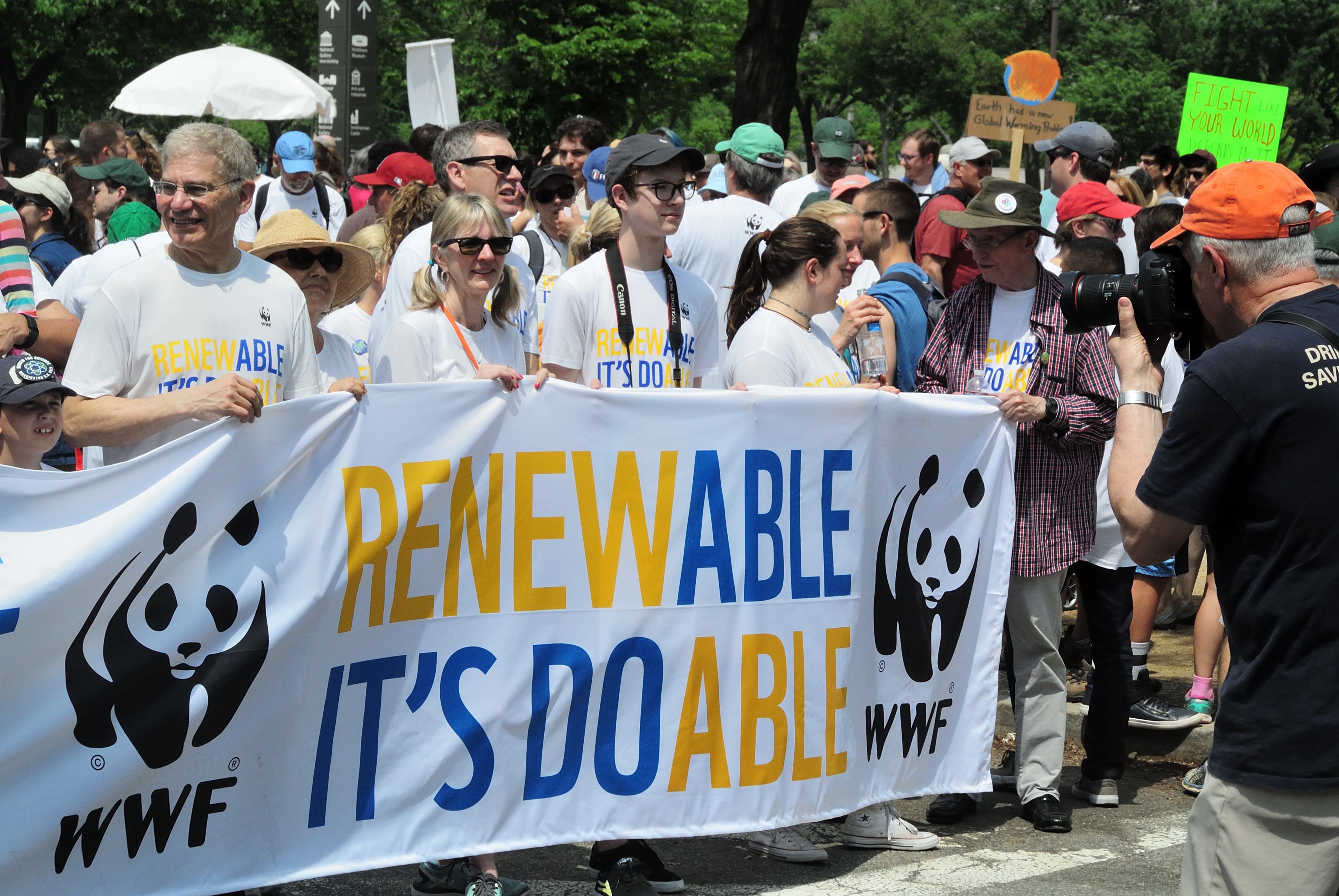 Banner "Renewable it's so doable", at the People's Climate March 2017.